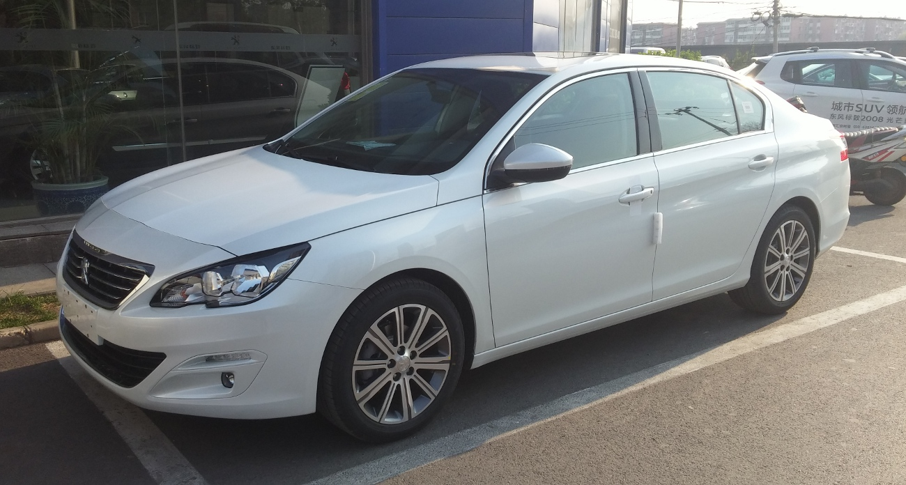 Peugeot 408 II photographed in Beijing, China.